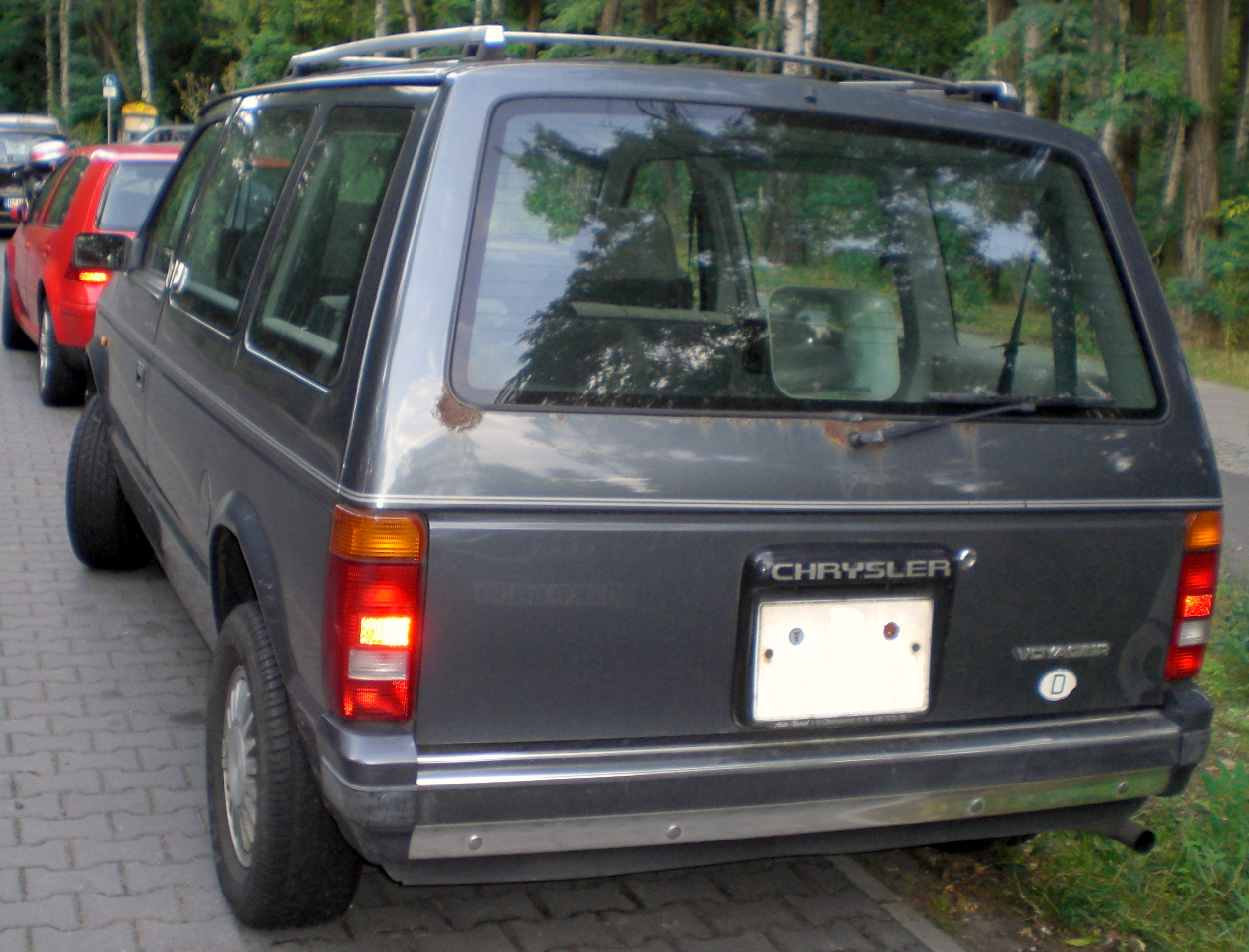 Chrysler Voyager first Generation, European Version